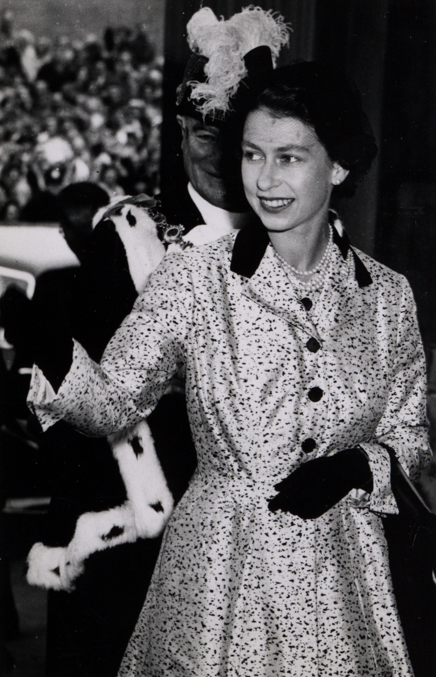 From a series of nine black and white photographs, from New Zealand Prime Minister Walter Nash's personal collection, in envelope labelled '"Dominion" - Photos - Royal Tour - Keeping W.N. [Walter Nash] out of picture. Archives New Zealand reference: AEFZ 22625 W5727 2599 / 3103/0618-0626